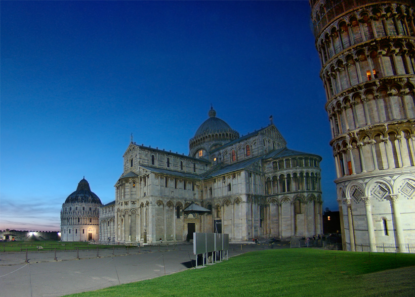 Piazza dei Miracoli, Pisa, Tuscany, Italy. After the crowd has left.